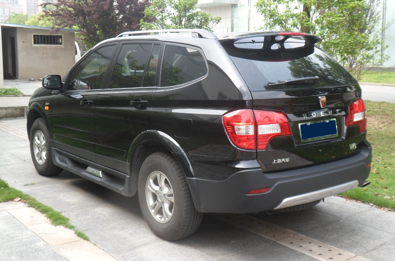 Roewe W5 photographed in Anting, Shanghai municipality, China.